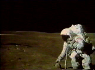 Astronaut Charles Duke about to pick up Big Muley, on the rim of Plum crater crater during Apollo 16 (EVA 1), on the moon.